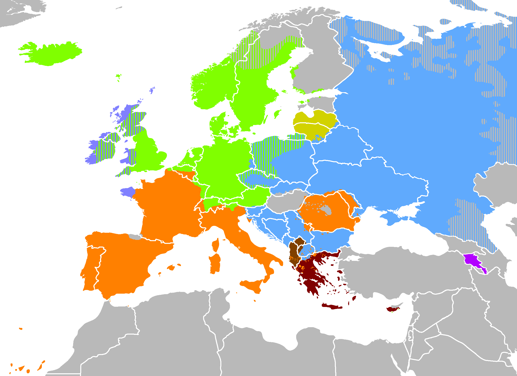 Indo-European languages.